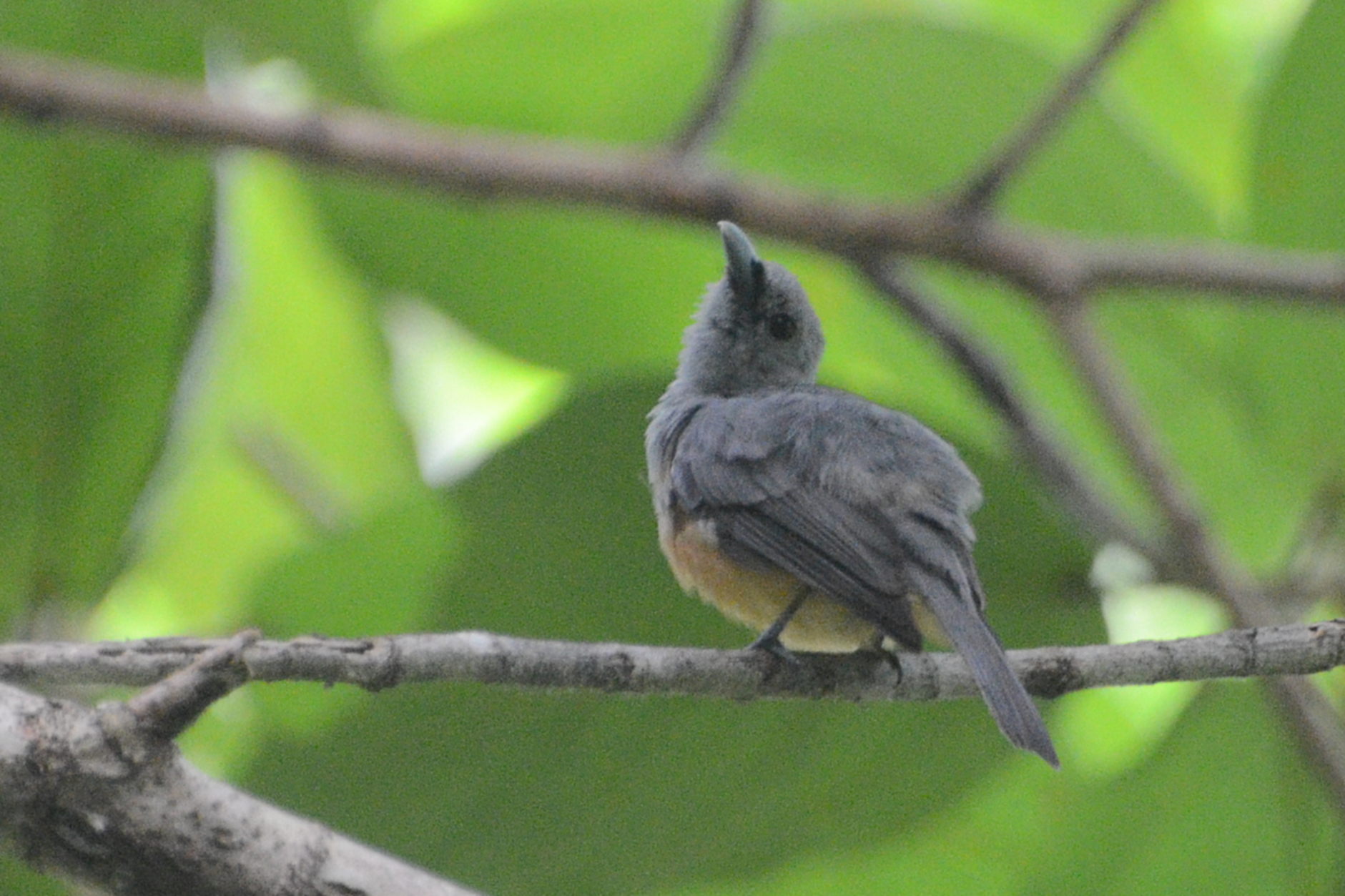 Island Monarch (Monarcha cinerascens cinerascens) at Salibabu Island, Talaud Islands